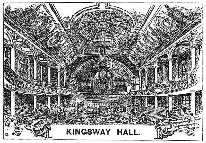 A line drawing of the Kingsway Hall auditorium taken from a 1925 letterhead.